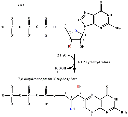 Structural drawing of the GTP cyclohydrolase reaction to transform GTP into 7,8-dihydroneopterin 3'-triphosphate